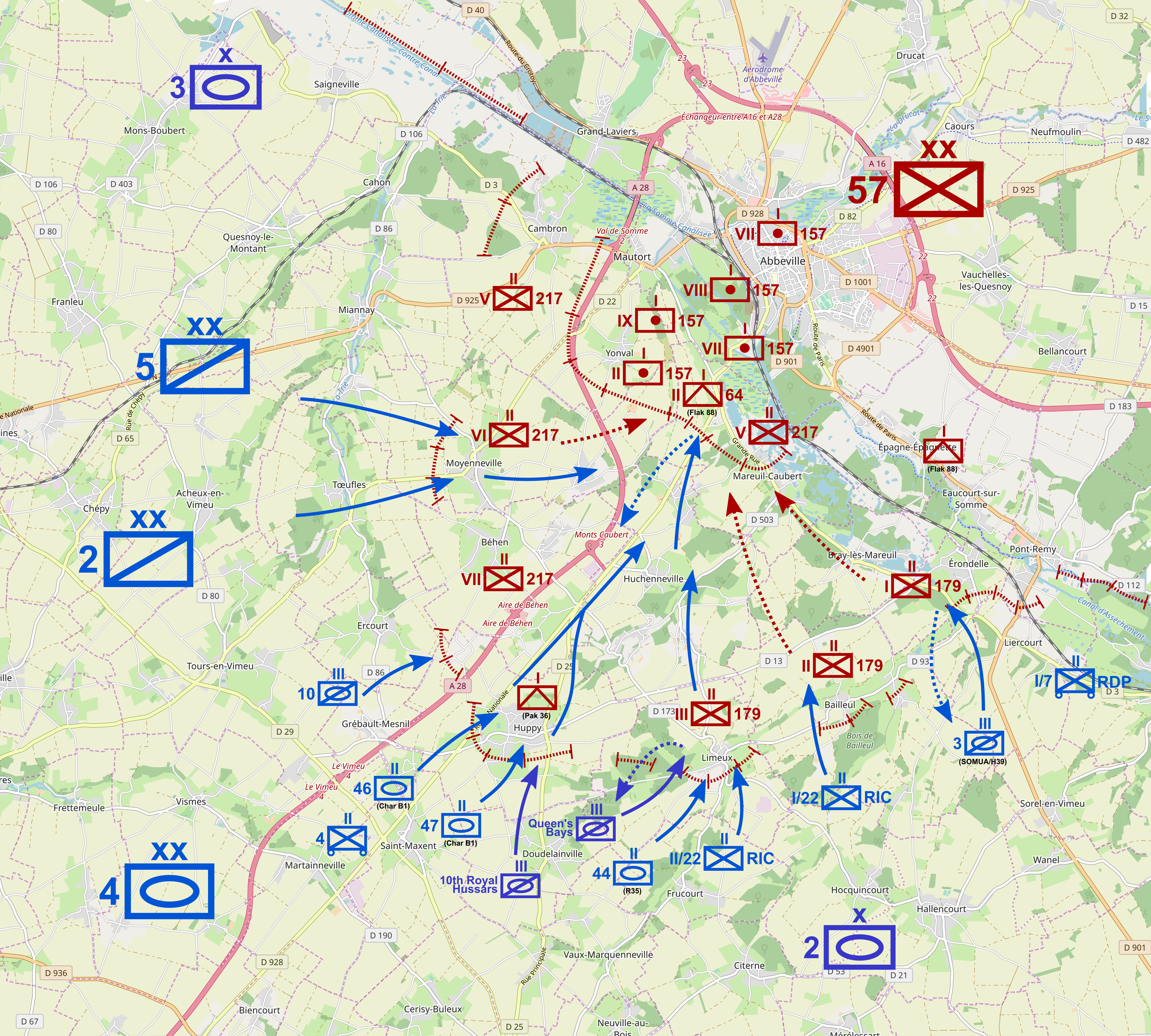 Map showing the battle at Abbeville, May 28 - June 4 1940. Influenced by maps in Robert Forczyk's "Case Red: The Collapse of France". This map may be incomplete, and may contain errors. Don't rely solely on it for navigation.